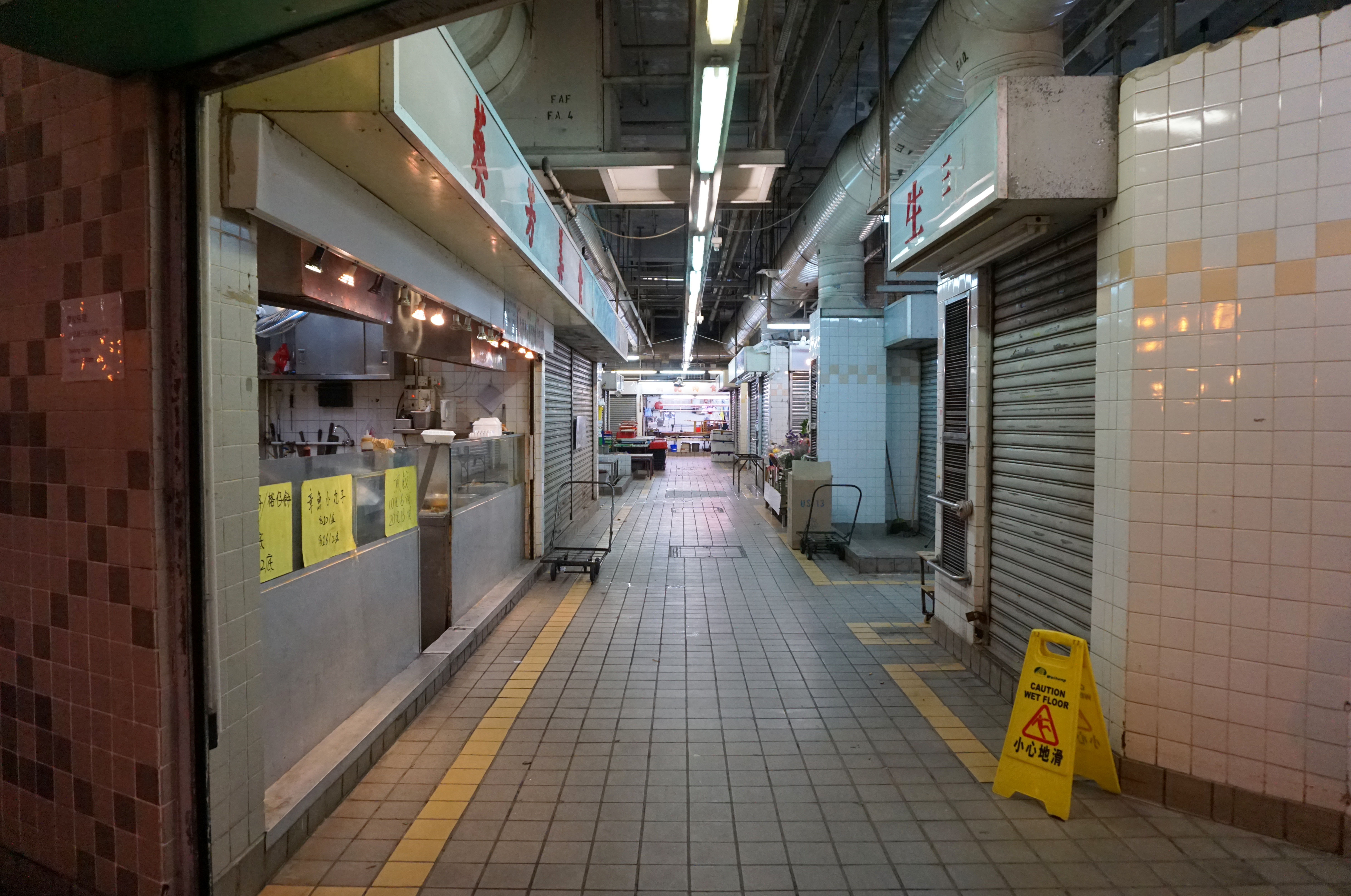 Kwai Fong Market in Kwai Fong, Hong Kong.